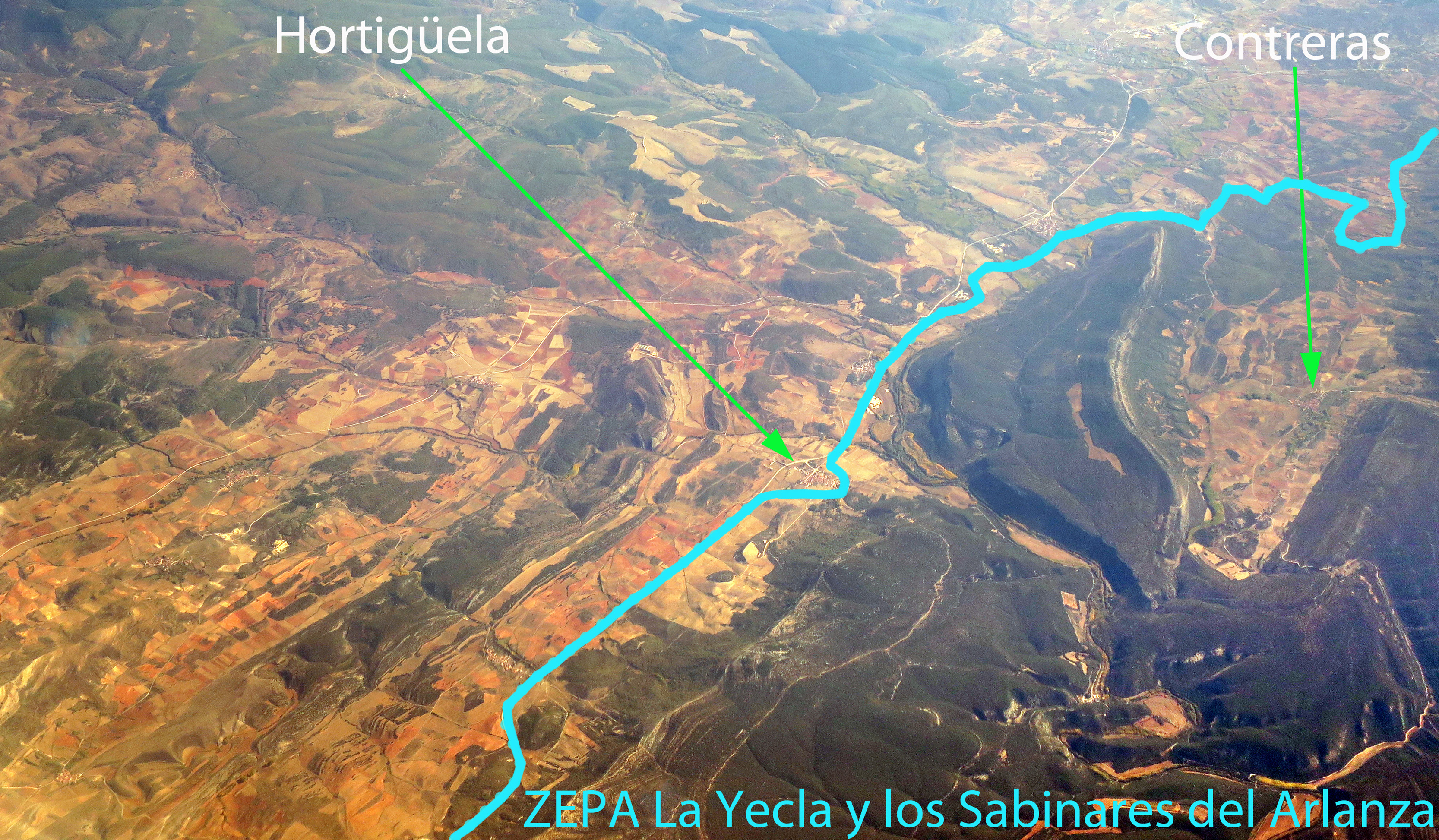 An aerial view of part of the province of Burgos in Spain. Includes the villages of Hortigüela and Contreras and part of 'La Yecla y los Sabinares del Arlanza' protected area.